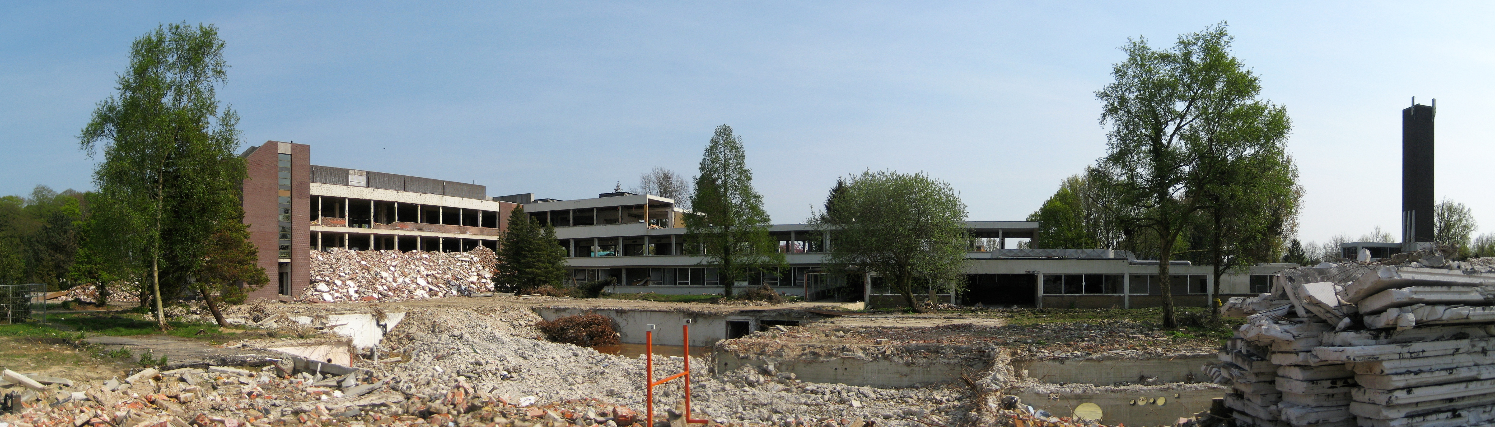 Remains of the Diaconessenhuis/Martiniziekenhuis, a former hospital in the Dutch city of Groningen.